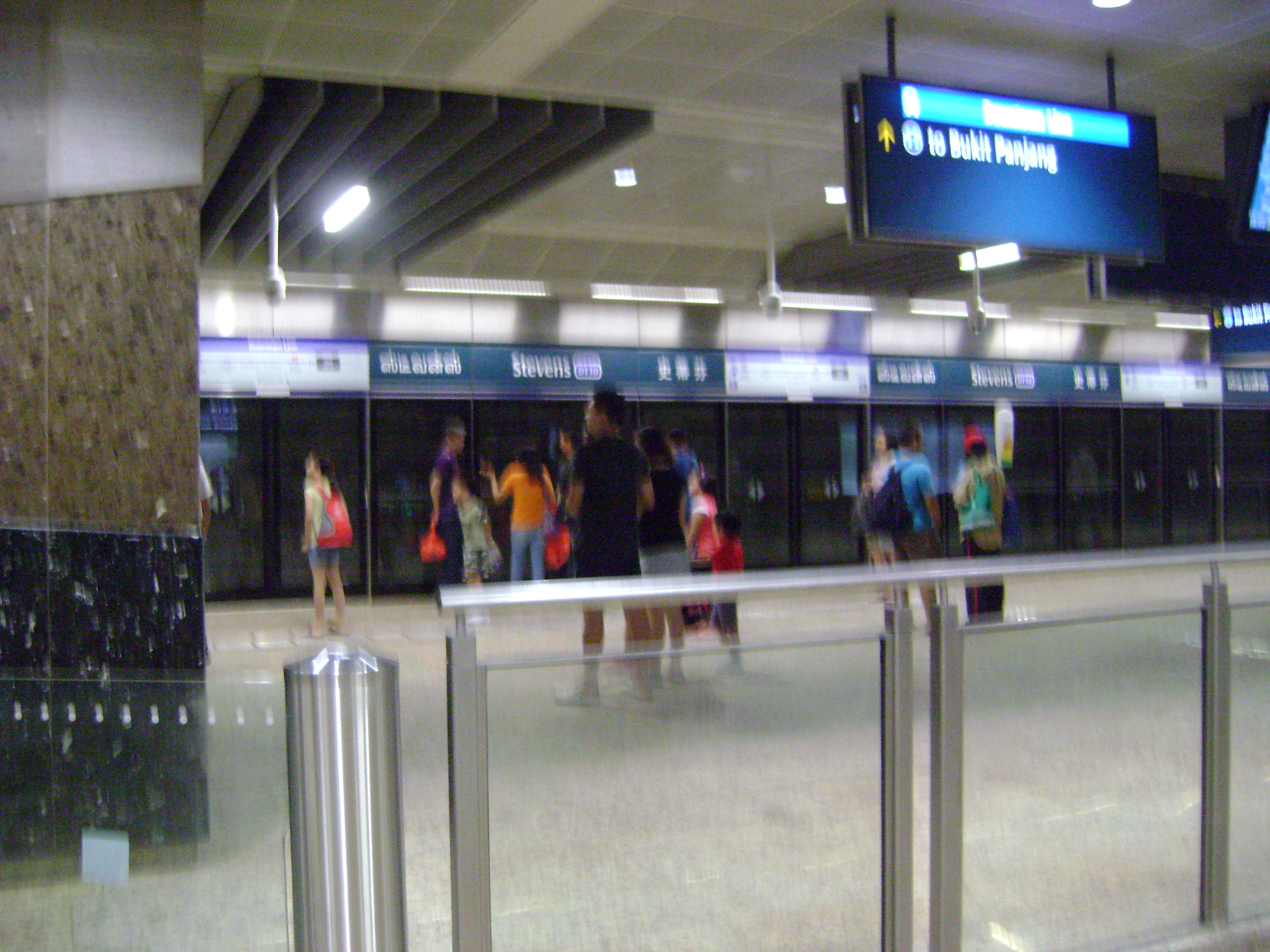 My own file... (Platform A was taken)